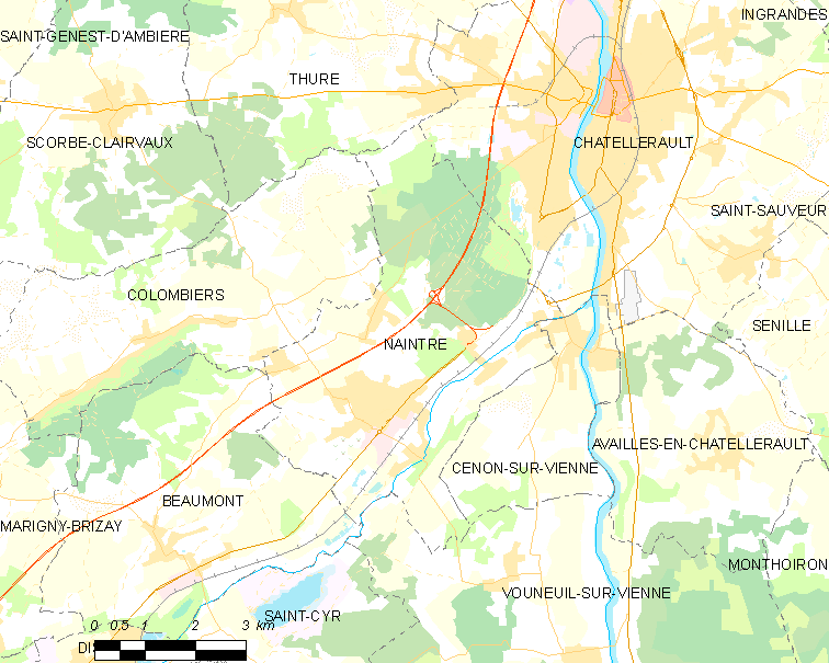 Map of French municipality Naintré